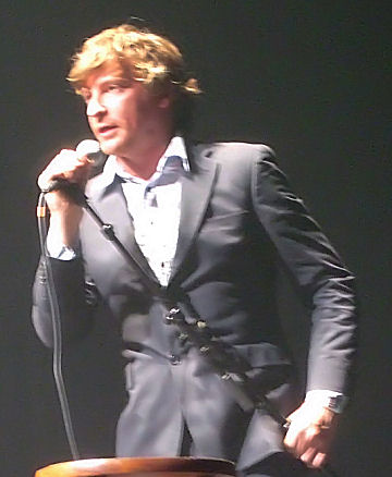 Stand-up comedian Rhys Darby